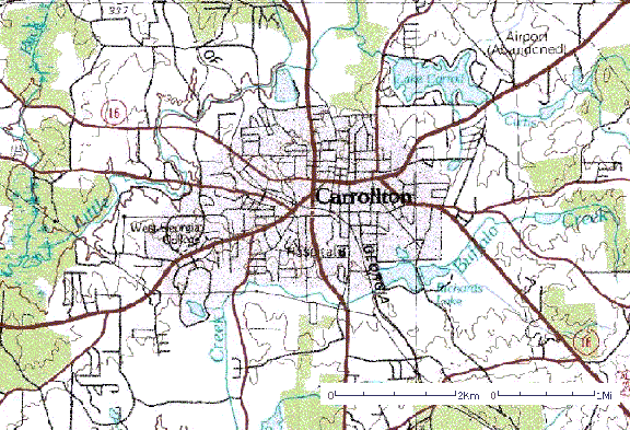 Topographic Map of Carrollton, Georgia. Circa 1975. Created by the U.S. Geological Survey (Department of the Interior). External Link U.S. Geological Survey